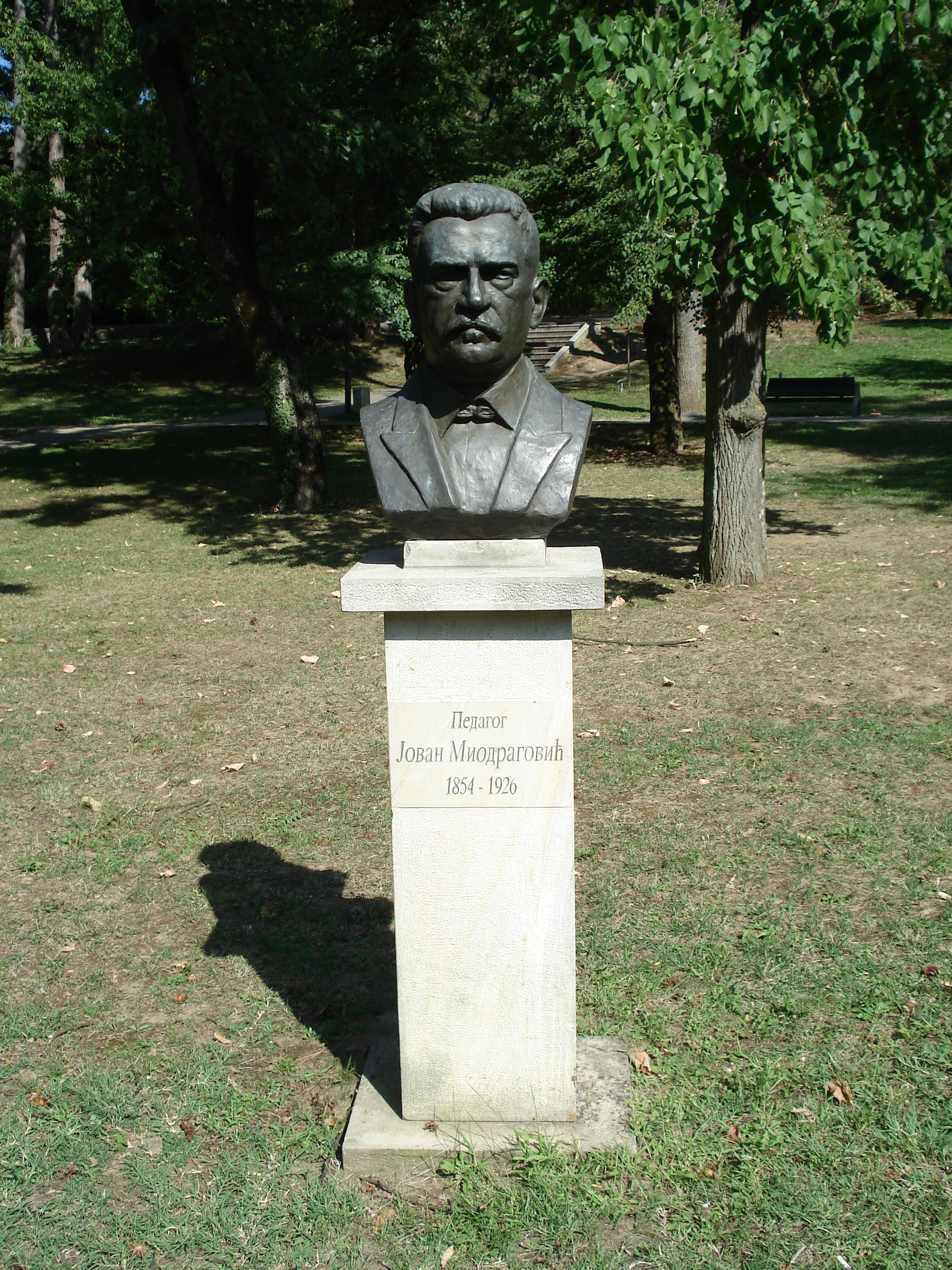 Jovan Miodragović, bista u Vrnjačkoj Banji